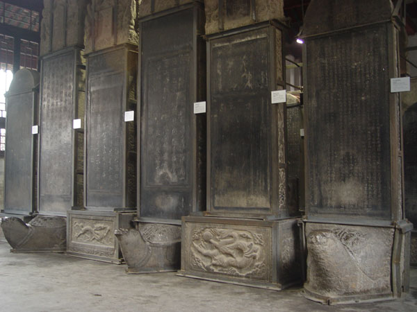 More than 2,300 stone tablets and sculptures are preserved now in Xi'an city in the Forest of Steles Museum.